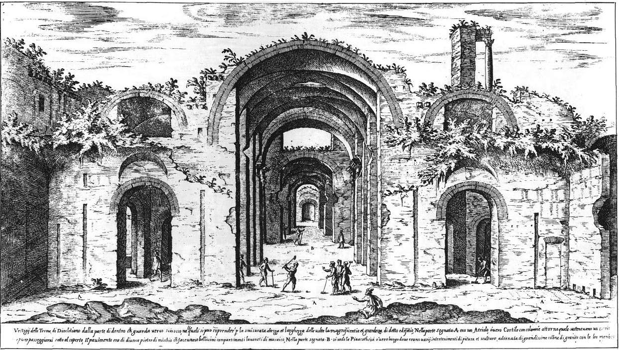 Remains of the baths of Diocletian, Rome.